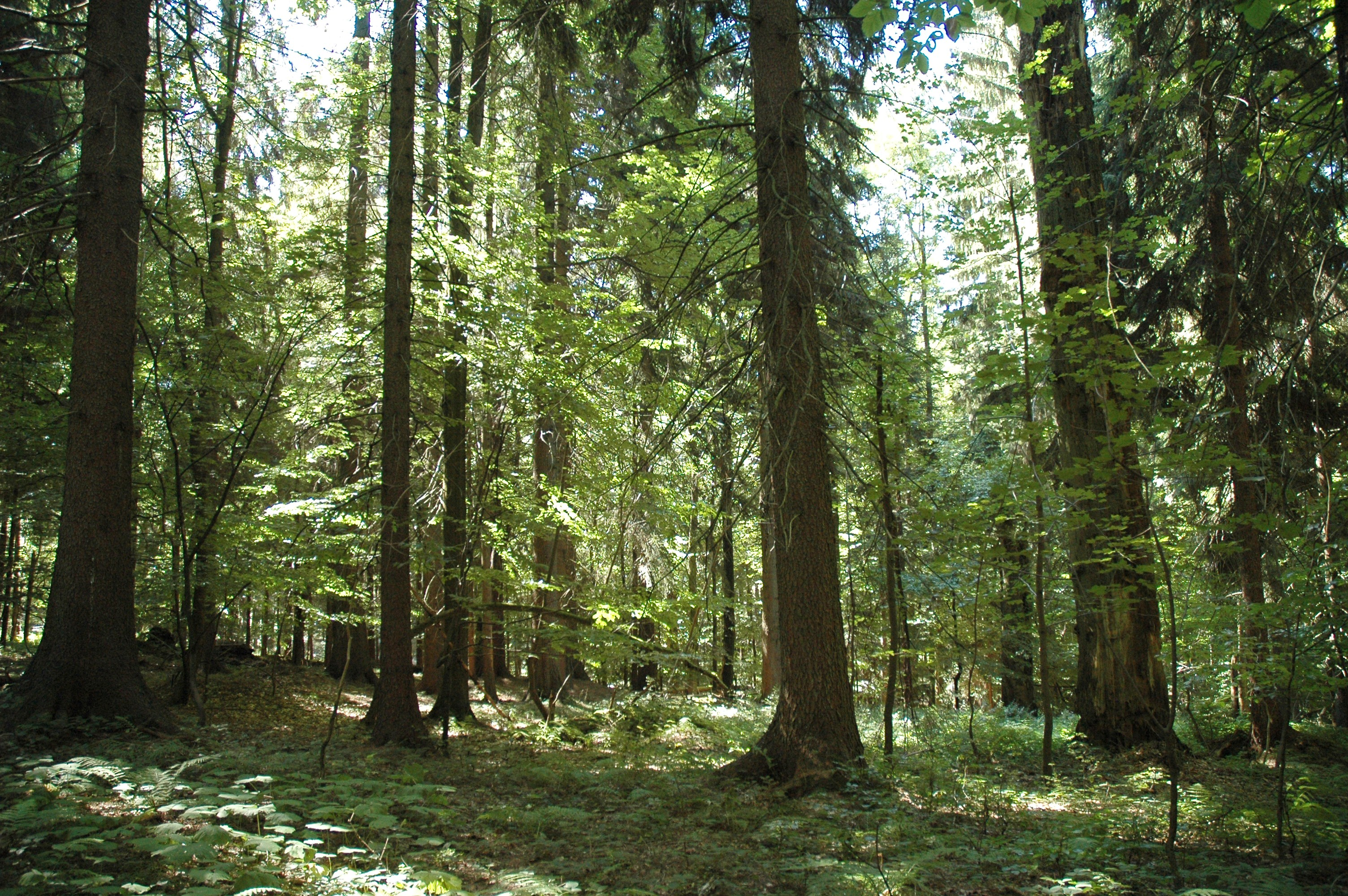 Nature reserve Polom in Chrudim District, Czech Republic